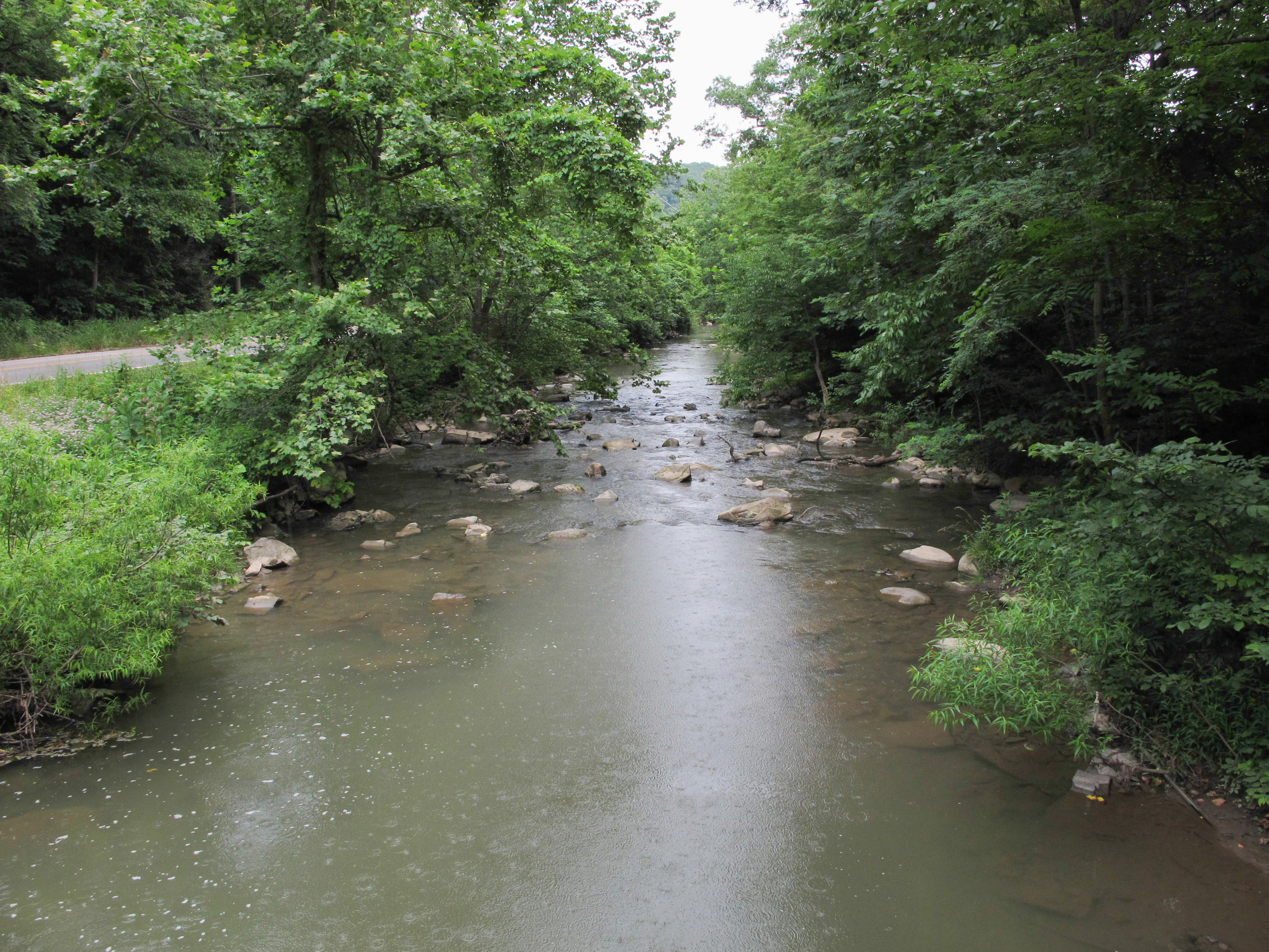 The East River as viewed downstream from Peggy Branch Road (County Road 38/3) in Hardy in Mercer County, West Virginia.